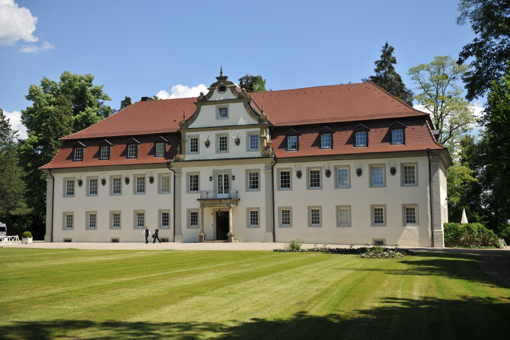 Friedrichsruhe castle